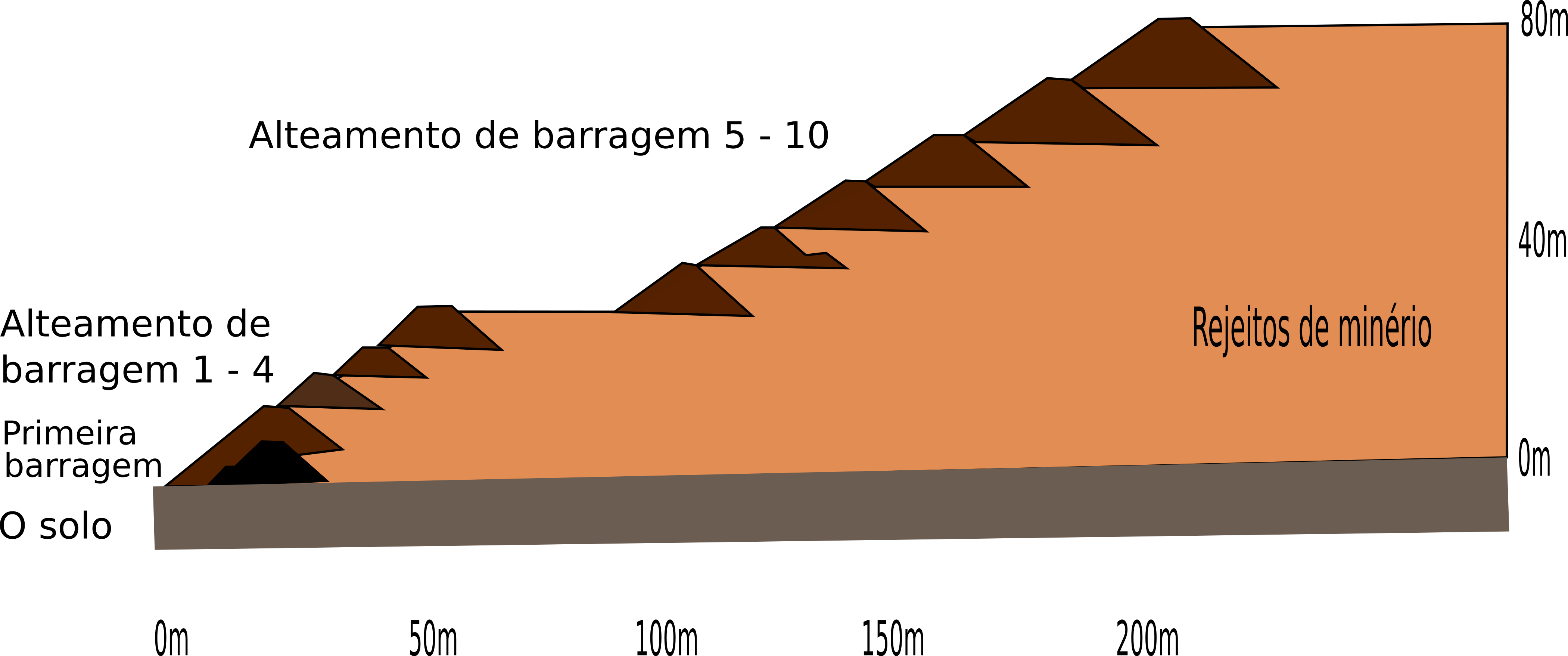 Brumadinho dam "Barragem I". Cross section through the broken dam from the west to the east. The dam is based on soil, not on solid rock. The first dam (black) had been build 1976 with coarse rubbel from mining. In the following decades the dam had been hightend several times. Dam raisings 1 to 4 had been done with compacted soil, each additional small damm had contributed 5 - 8 m in hight. In later years the dam raisings had been done with dams build out of dried tailings. The final dam reached a hight of 86 m.